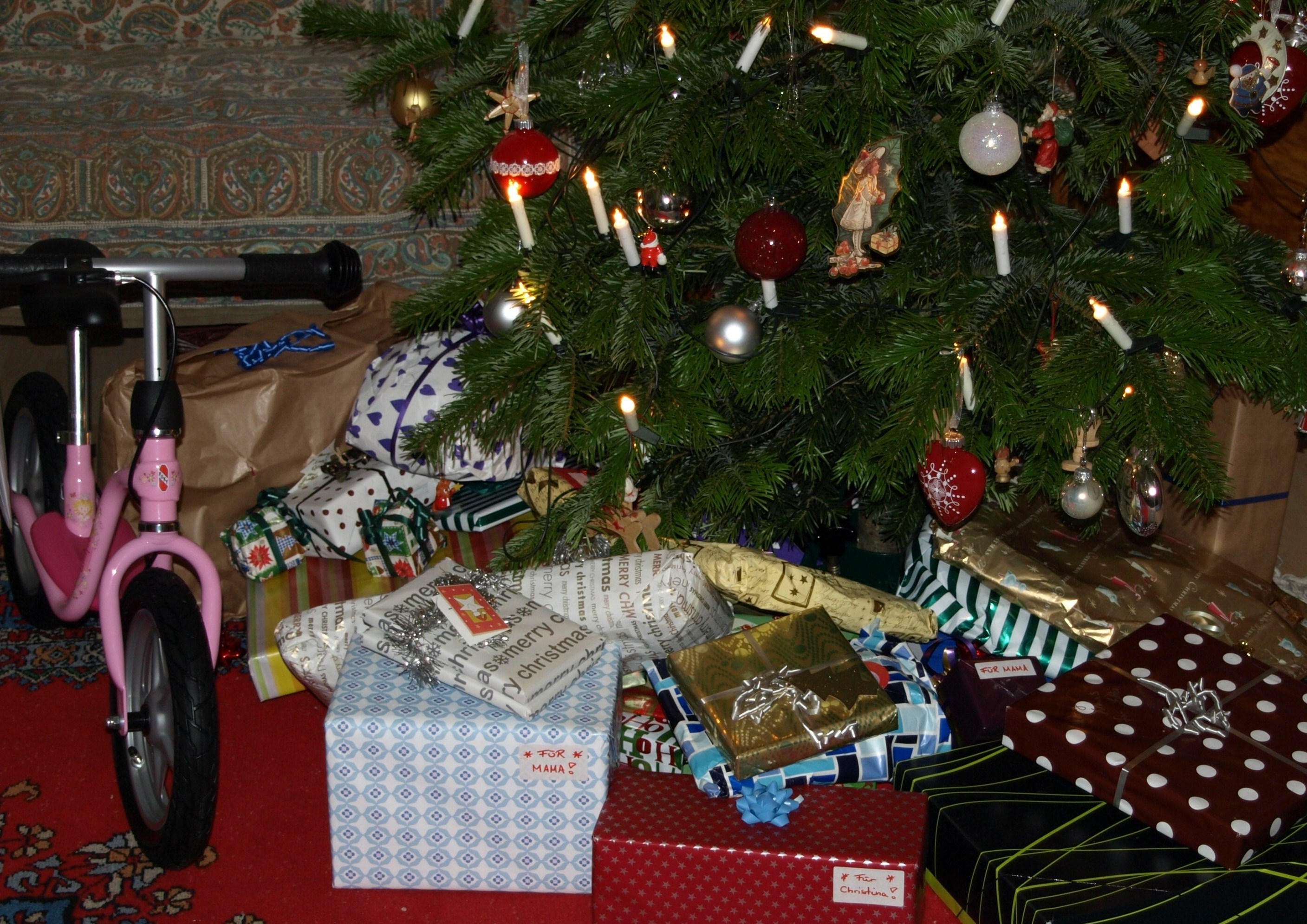 Christmas gifts